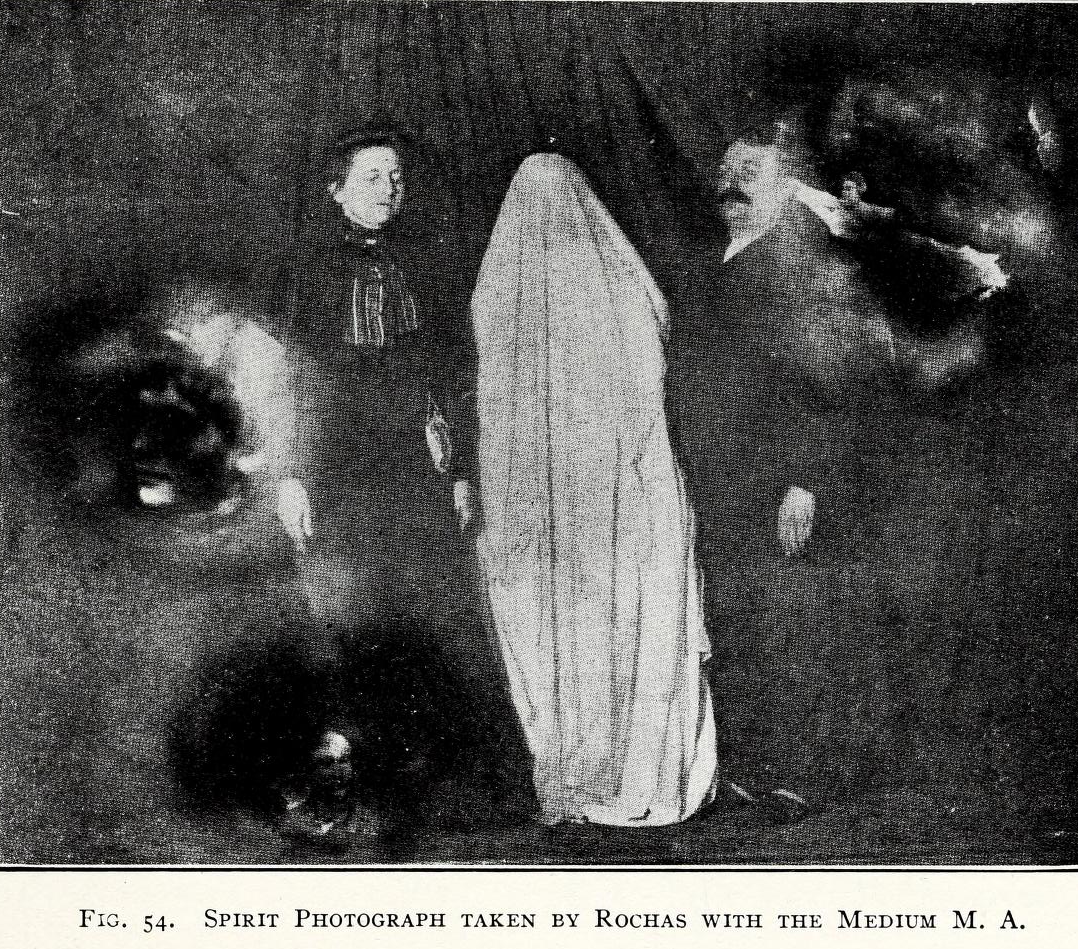 Alleged spirit photograph taken by the parapsychologist Albert de Rochas.